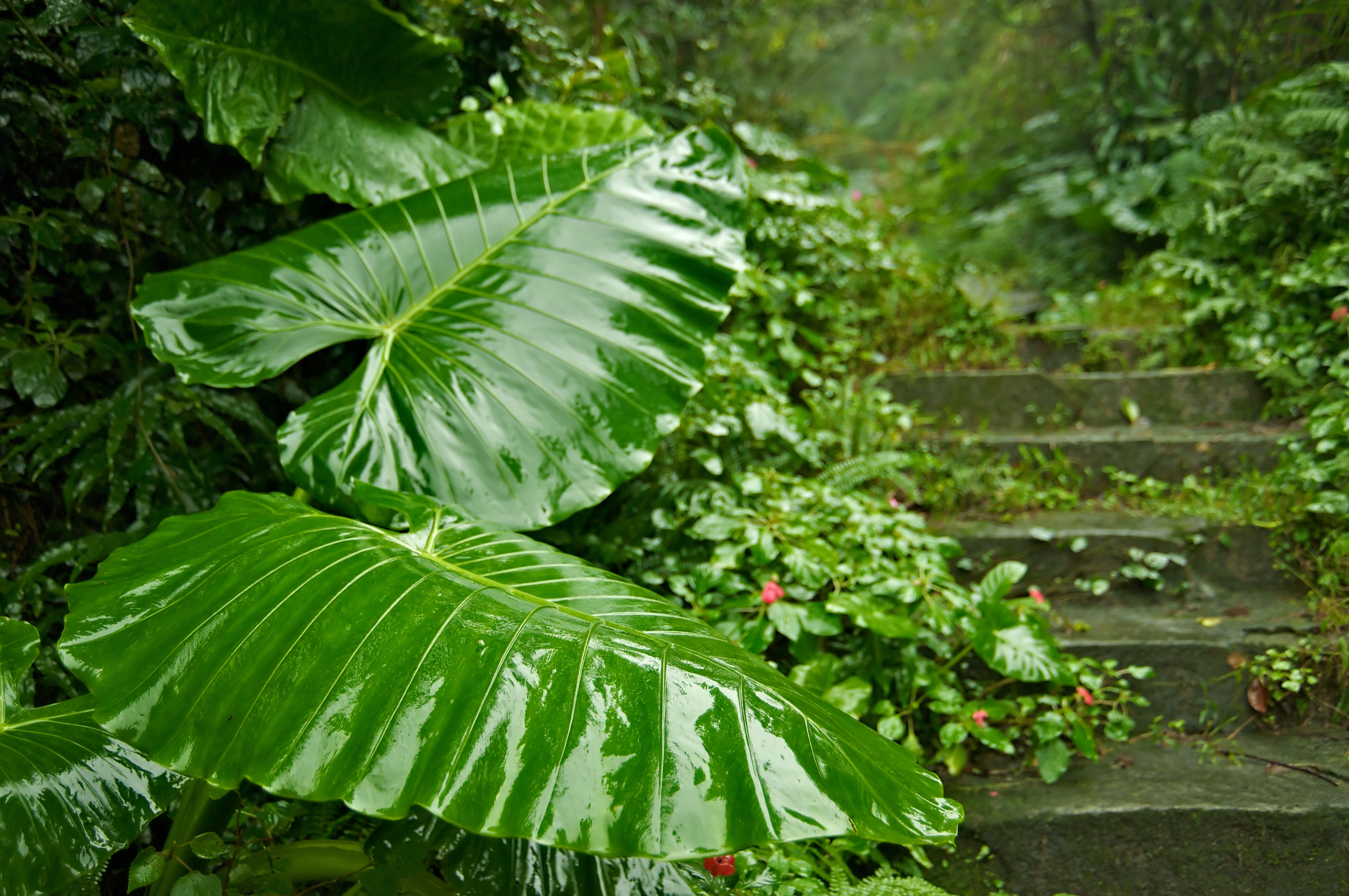 Elephant ear taro at Jinguashi